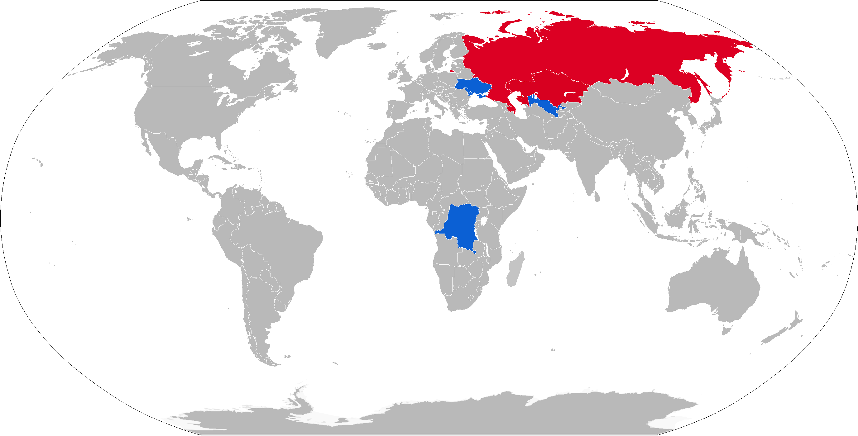 Map of T-64 operators in blue with former operators in red.